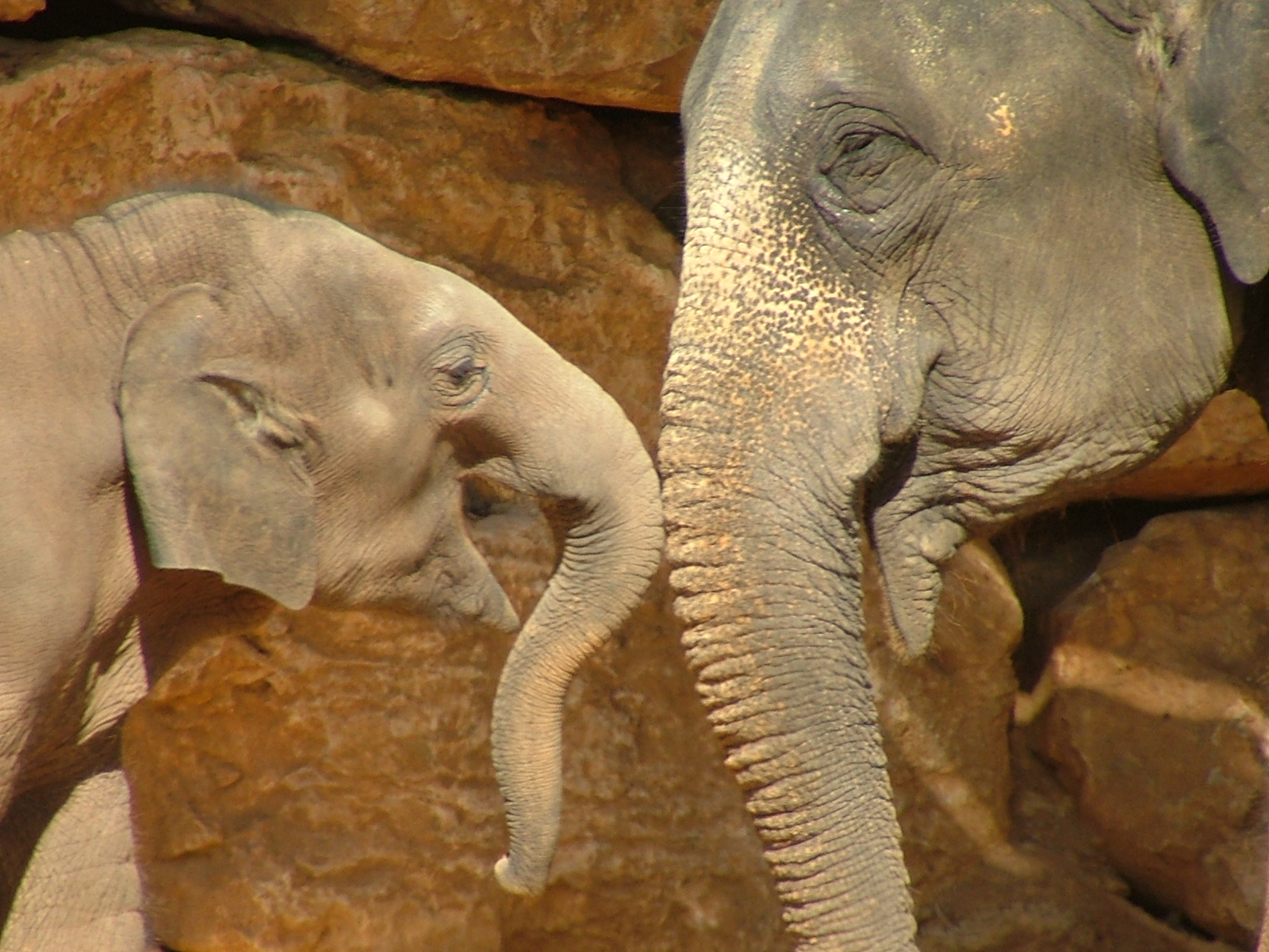 An Asian Elephant (Elephas maximus) named Tamar and her 13-month-old baby, Gabi, at the Jerusalem Biblical Zoo.